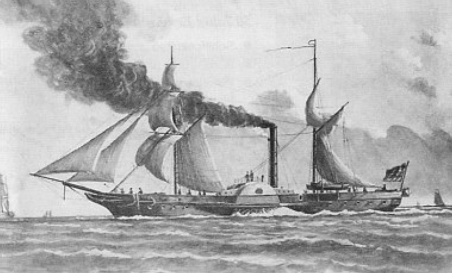 the Lübeck, a german warship of the Reichsflotte, Woodcut